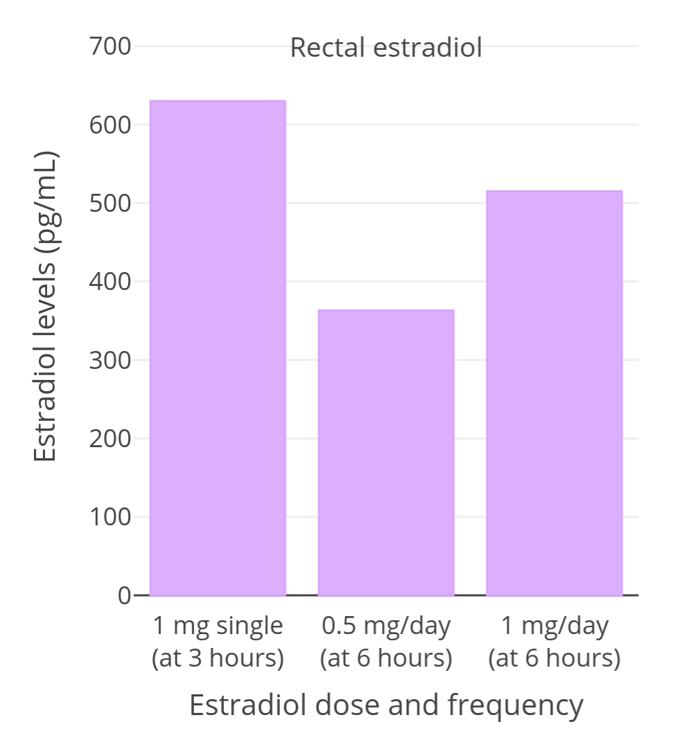 Estradiol levels (pg/mL) with rectal administration of estradiol in women. Levels of estradiol after a single 1 mg dose 3 hours post-dose, with 0.5 mg/day 6 hours after the last dose, and with 1 mg/day 6 hours after the last dose. Sources of the values: (December 1986). "Die Behandlung der klimakterischen Beschwerden durch vaginale, rektale und transdermale Ostrogensubstitution". Gynakologe 19 (4): 248–53. PMID 3817597. ISSN 0017-5994. Göretzlehner, G (1990) "Wirkspektrum unterschiedlicher Östrogene" in (in german) Östrogene in Diagnostik und Therapie, Springer-Verlag, pp. 77–83 ISBN: 978-3-642-75101-1. (1987). "Neue Gesichtspunkte in der Behandlung postmenopausaler Beschwerden". Archives of Gynecology and Obstetrics 242 (1–4): 471–479. PMID 3688962. ISSN 0932-0067. (September 1990). "Clinical use of oestrogens and progestogens". Maturitas 12 (3): 199–214. PMID 2215269.